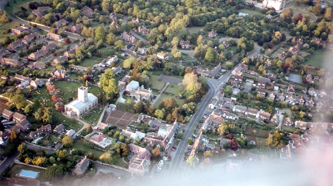 Aerial view of Shrivenham seen from a glider. St Andrews Church is to the left